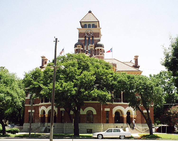 The Gonzales County Courthouse located in Gonzales, Texas, United States. The Romanesque Revival style building was designed by James Riely Gordon and built in 1894. It was designated a Recorded Texas Historic Landmark in 1966 and listed on National Register of Historic Places on June 19, 1972.